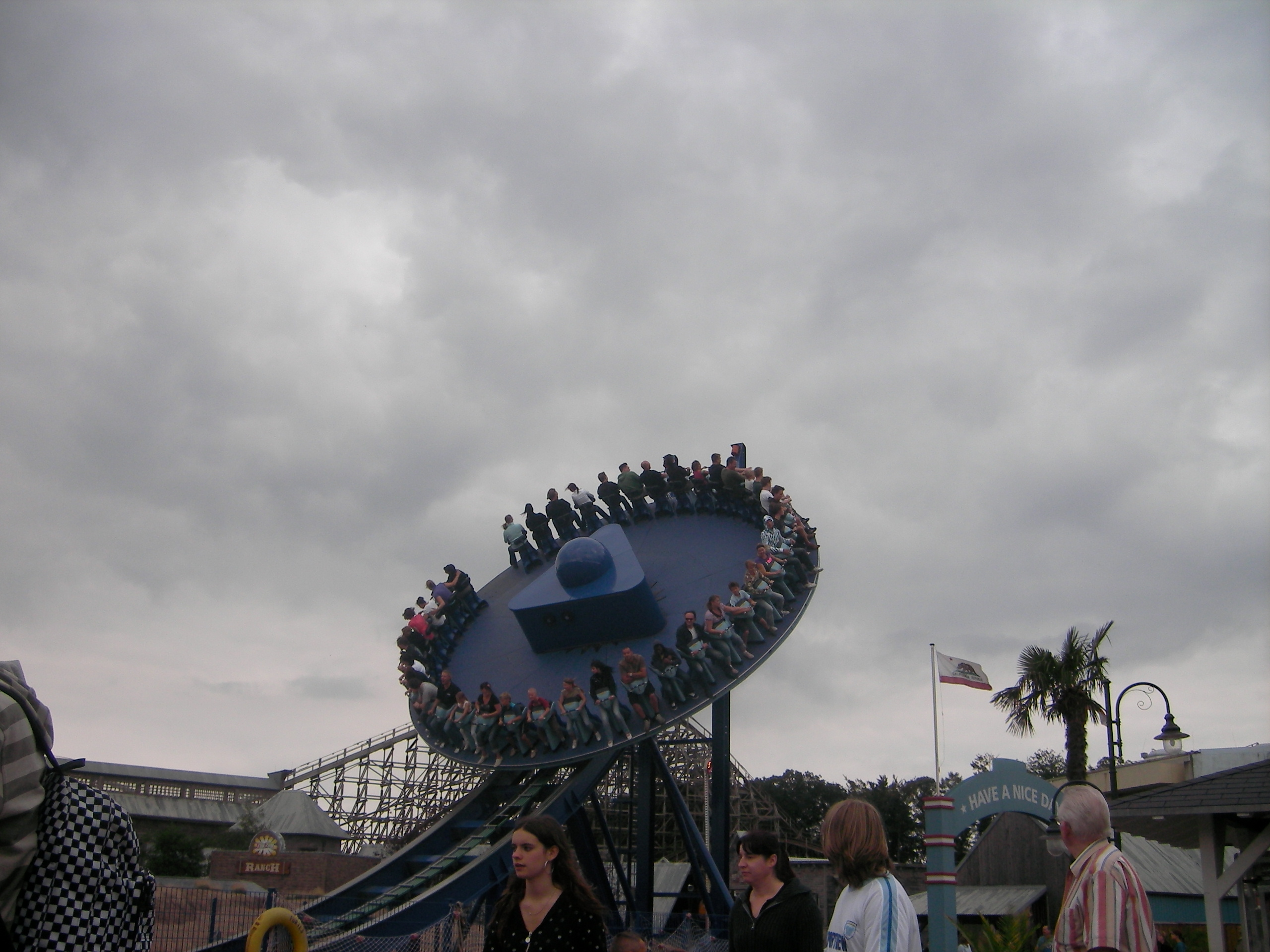 Movie Park Germany in Bottrop-Kirchhellen